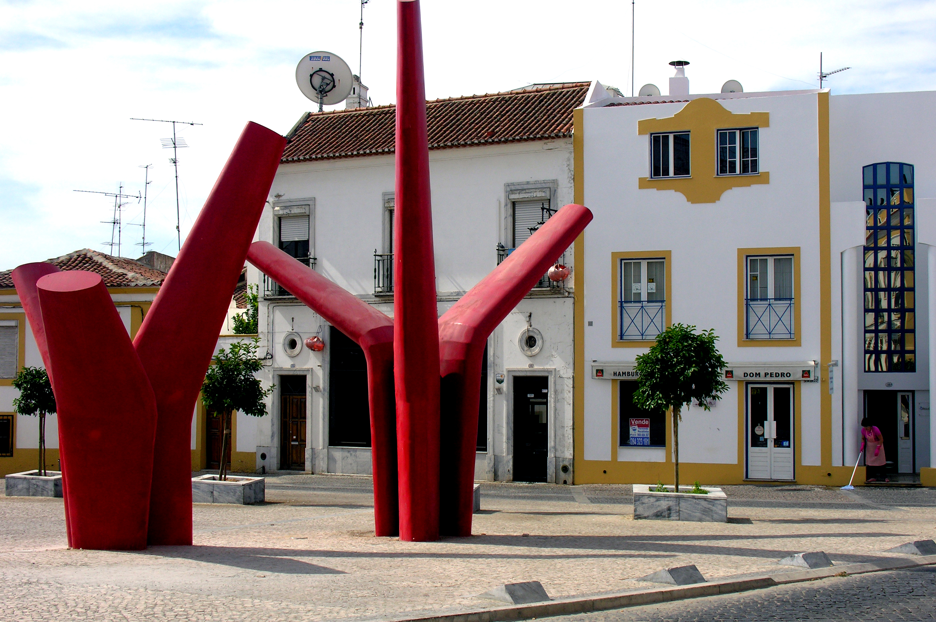 Modern art installation located on Largo de São Joao in city of Beja, Alentejo, Portugal.